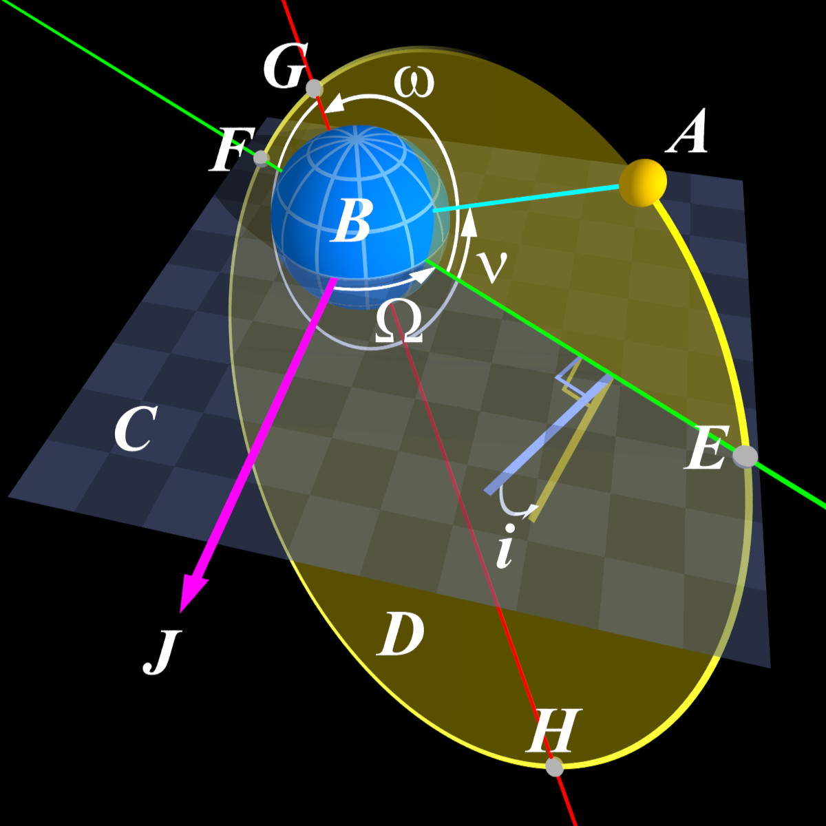 Raytraced image showing the concepts of inclination, longitude of the ascending node, and argument of the periapsis for a "minor" object in an elliptic orbit around a larger object.